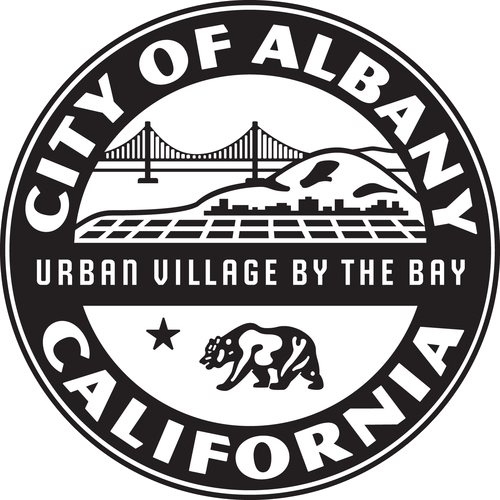 Seal of Albany, California